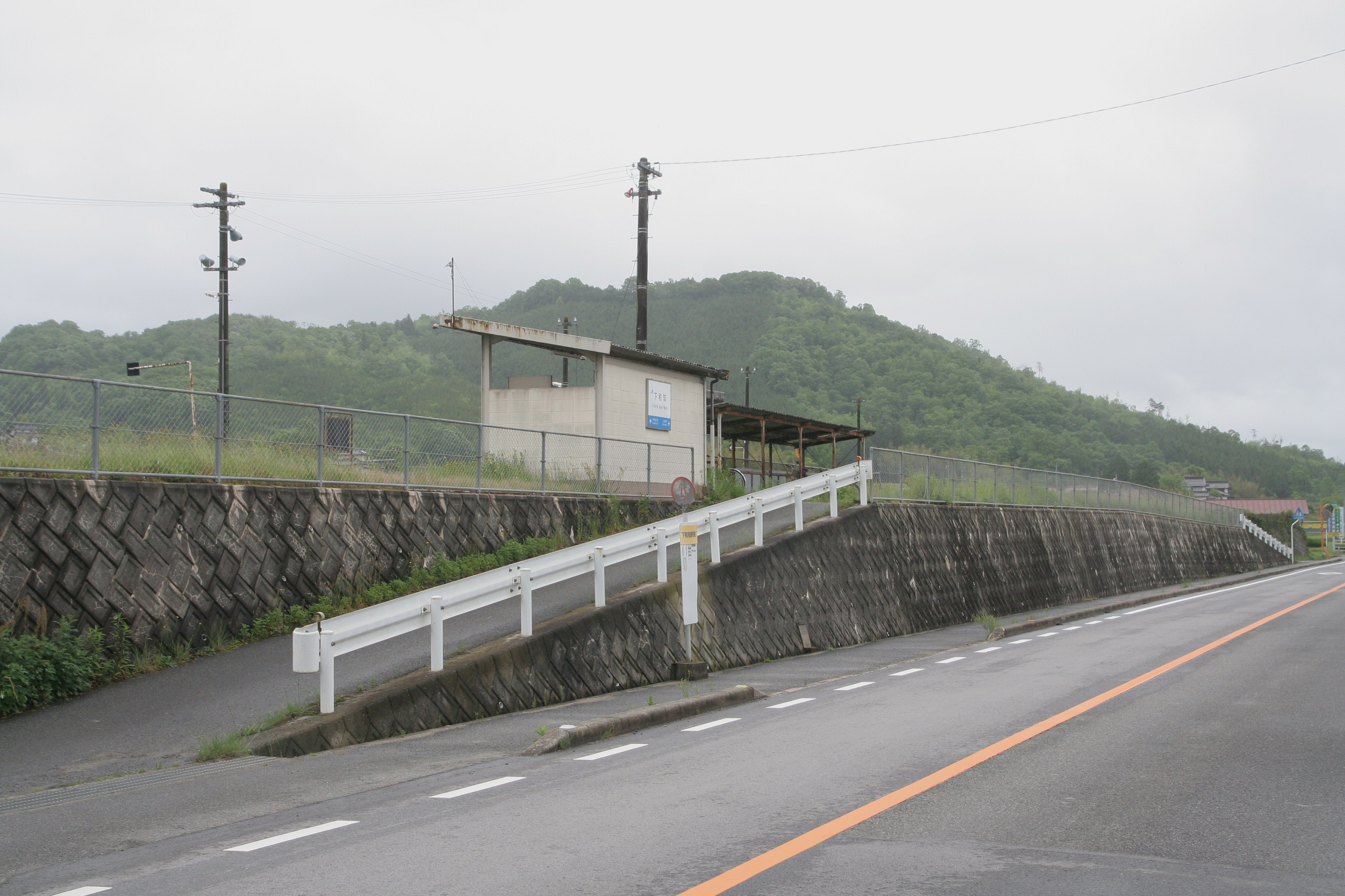 JR West Geibi Line Shimo-Wachi Station entrance